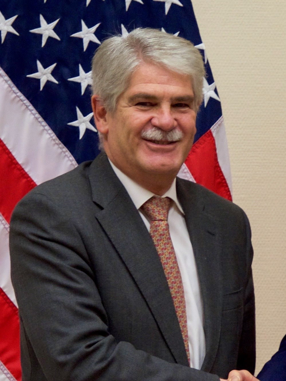 U.S. Secretary of State John Kerry shakes hands with newly appointed Spanish Foreign Minister Alfonso Dastis on December 6, 2016, before a bilateral meeting as they both attend a North Atlantic Treaty Organization Ministerial Session at the alliance's headquarters in Brussels, Belgium. [State Department photo/ Public Domain]